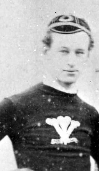 Sir George Lockwood Morris, Wales international rugby union player and 8th Baronet of the Morris Baronets of Clasemont